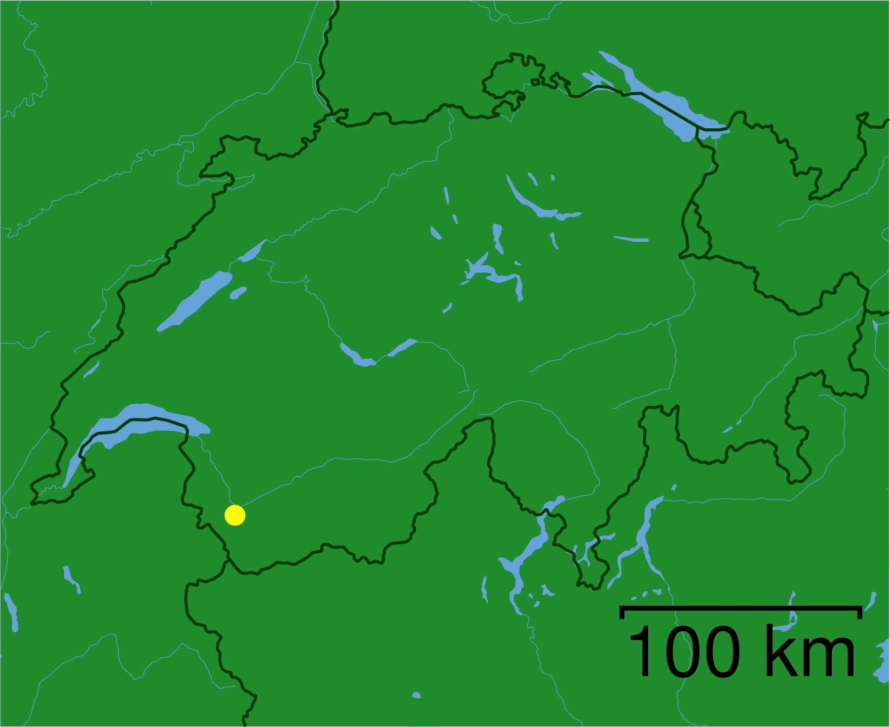 Martigny´s location within Switzerland.